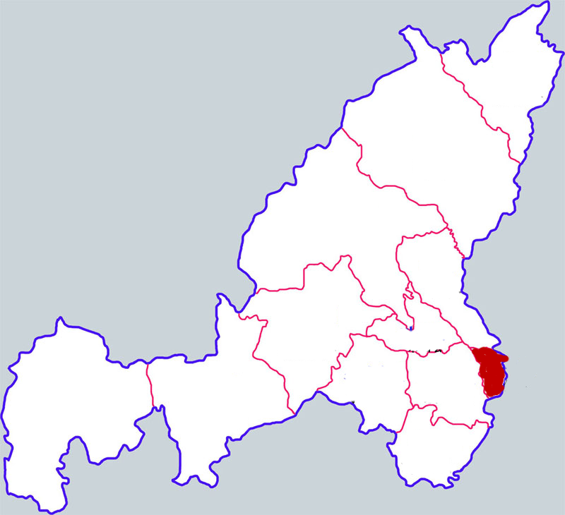 Location of Wubao county in Yulin city, Shaanxi province, China